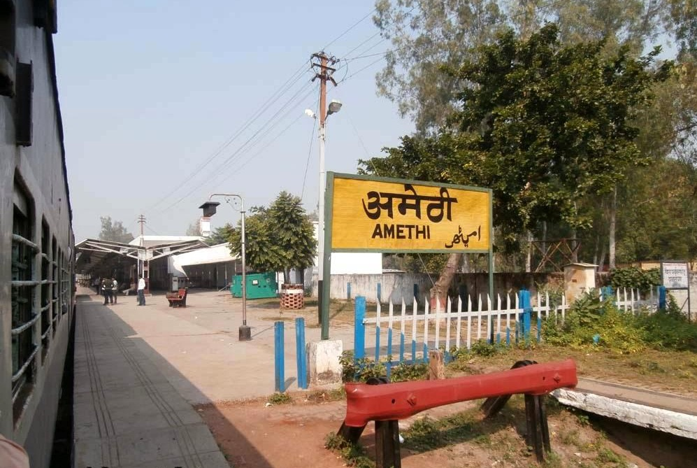 Amethi Railway Station, total 57 trains halt here and this station has 2 platforms. Nearest airport is Bamrauli Airport in Allahabad.